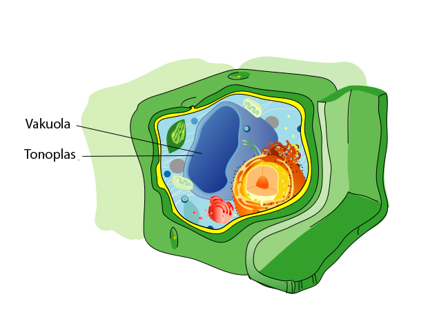 Plant_cell_structure labelling only the vacuole